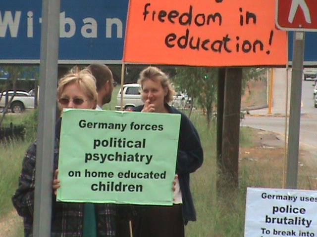 Protest action at the Deutsche Schule in Pretoria against the persecution of homeschoolers in Germany in 2007.